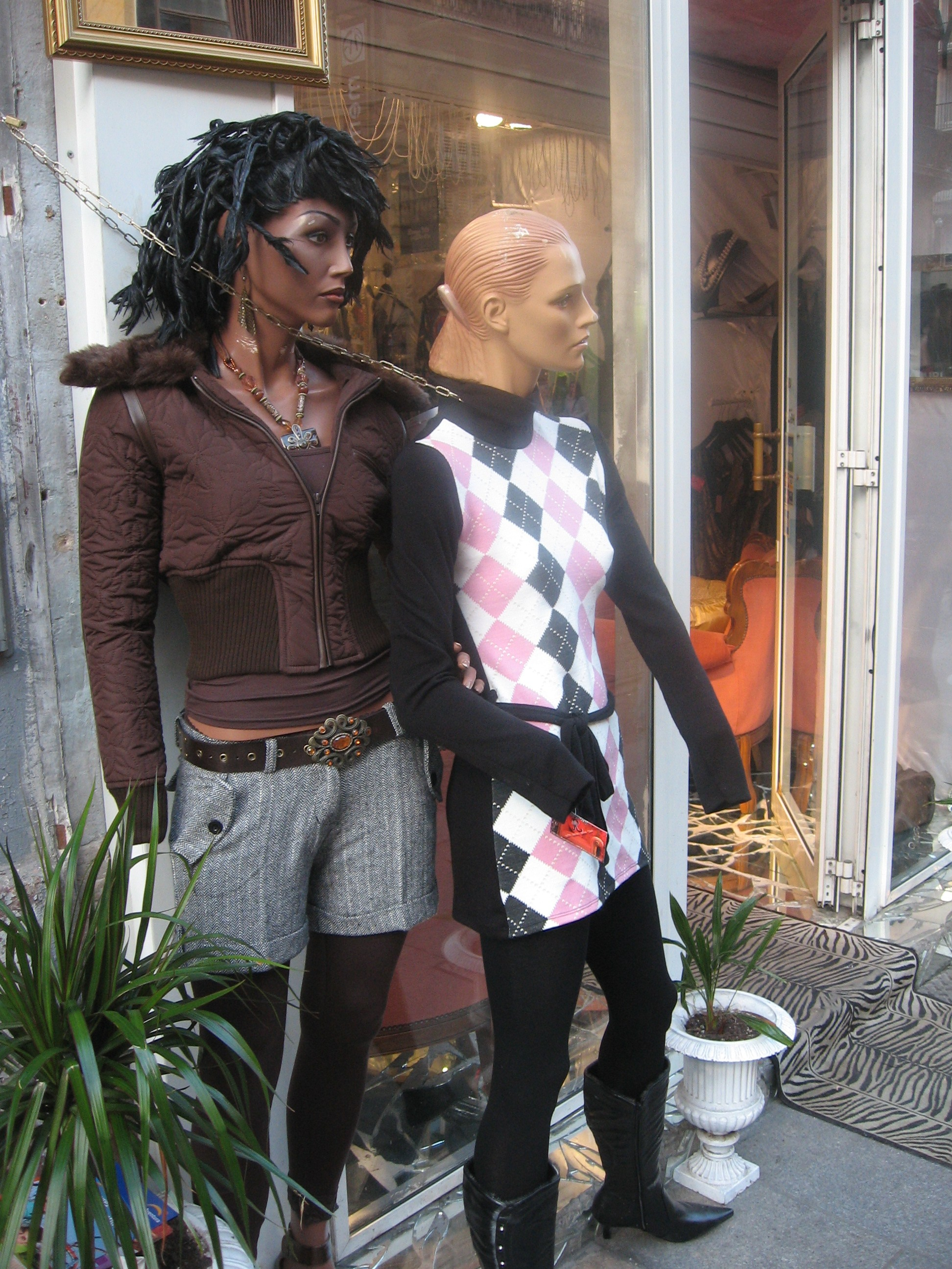 Mannequins bound with a chain